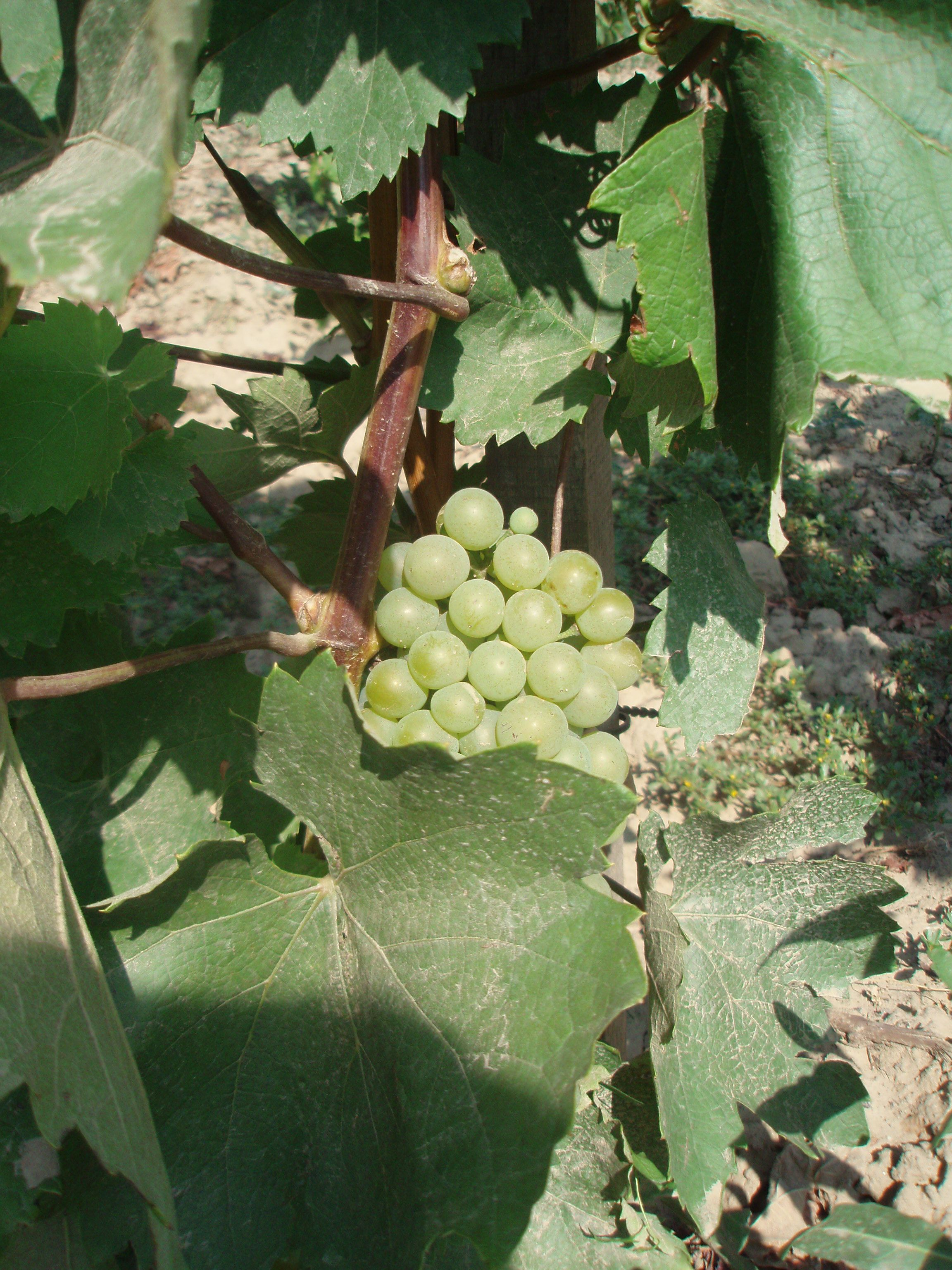 Harslevelu grapes used in the production of the Hungarian dessert wine Tokaji